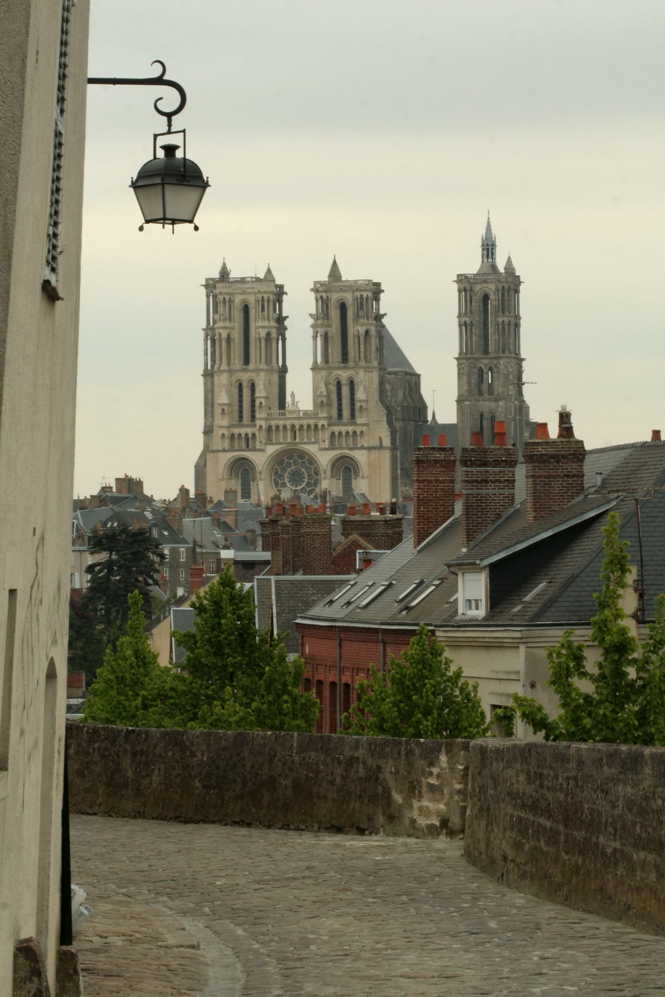 Cathédrale Notre-Dame de Laon, seen from boulevard Michelet.